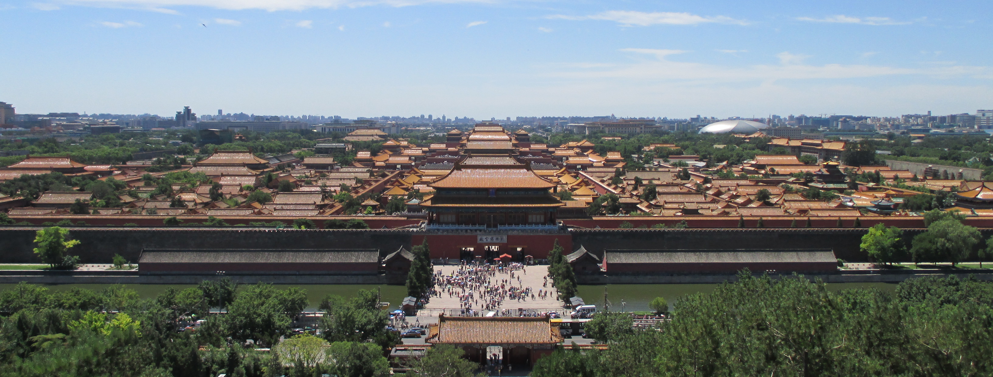 The Forbidden City in Beijing, China, viewed from Jing Shan.